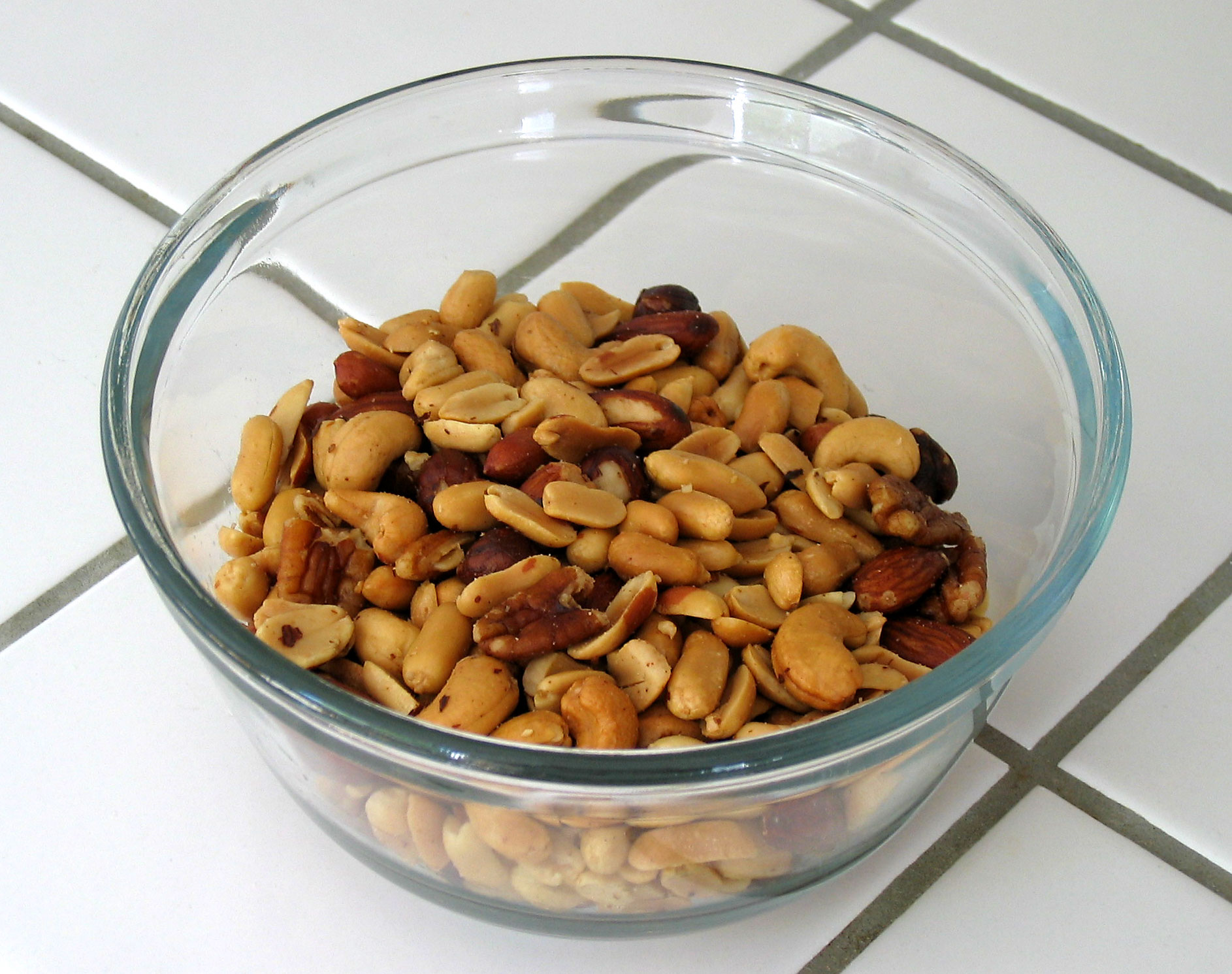 Mixed nuts